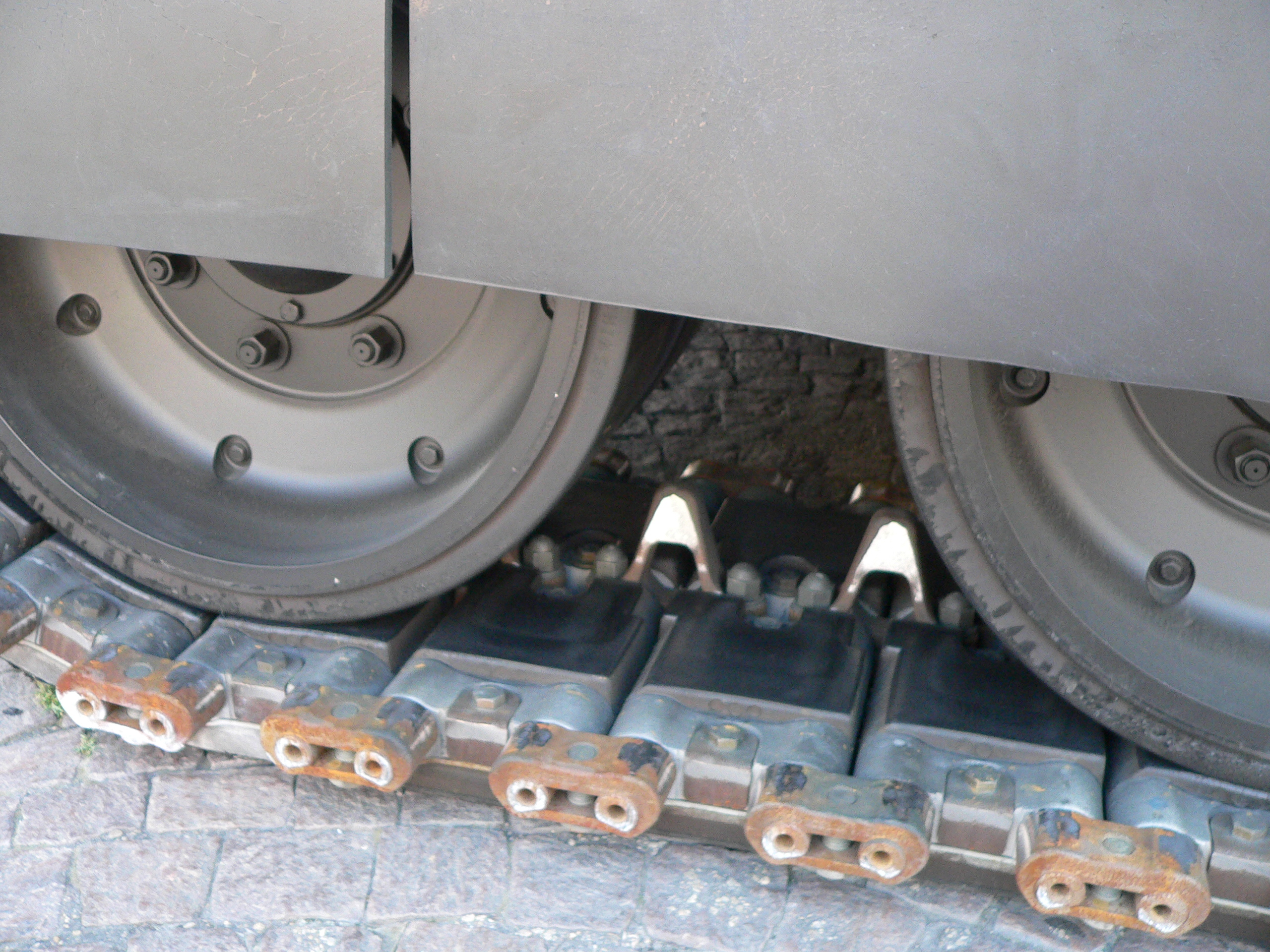 Leclerc main battle tank Military parade, Avenue des Champs-Élysées (Paris), 14 July 2006